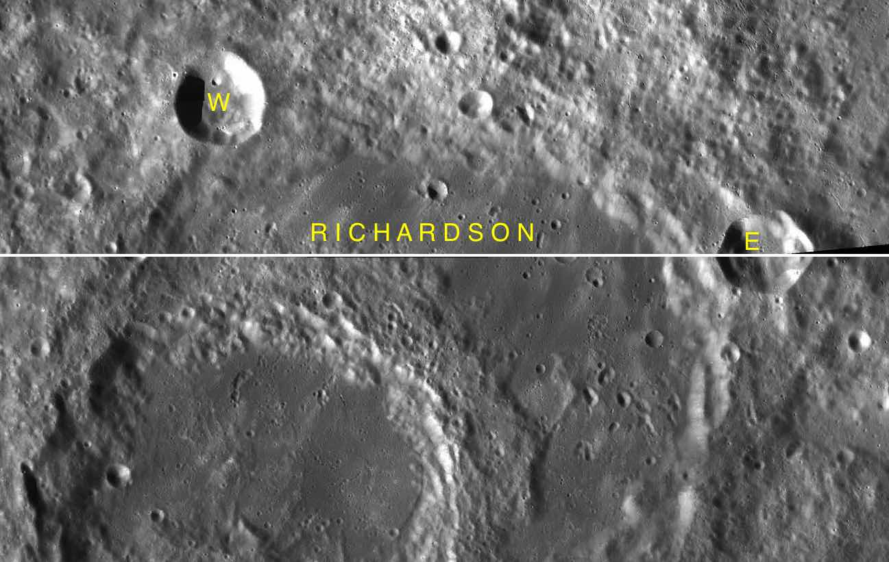 Parts of the charts LAC-29, LAC-46 used for the presentation